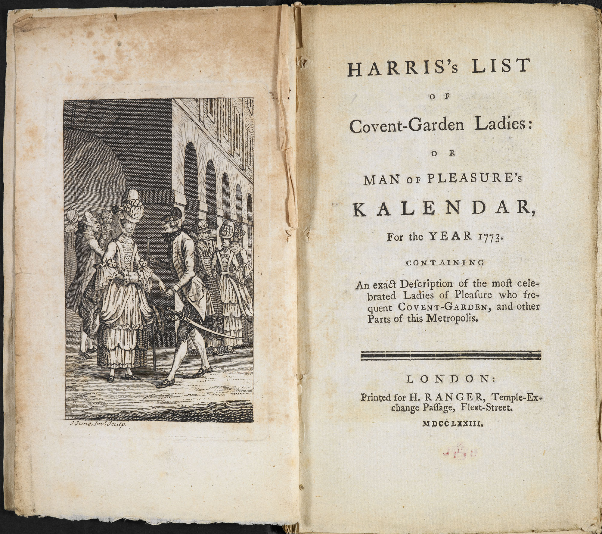 Cover of 1773 edition of Harris's List of Covent Garden Ladies